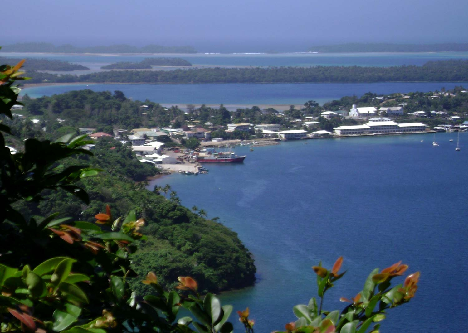 Port of Refuge harbour as seen from mount Talau, Vavaʻu, Tonga; Neiafu to the left, Fungamisi to the right